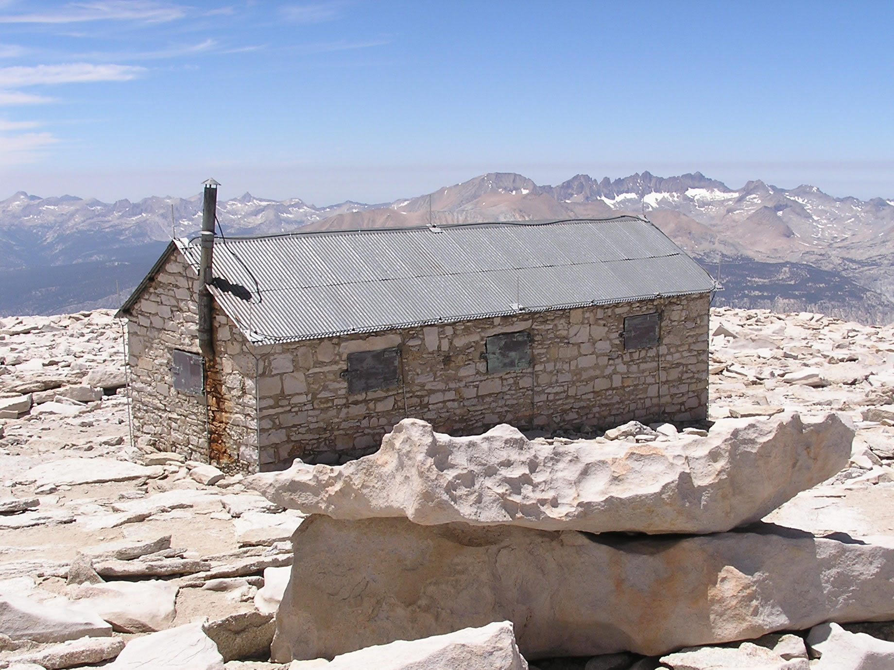 Smithsonian Institution Shelter on Mount Whitney's summit, Sierra Nevada, California. The Kaweah Ridge is prominent on the right horizon.